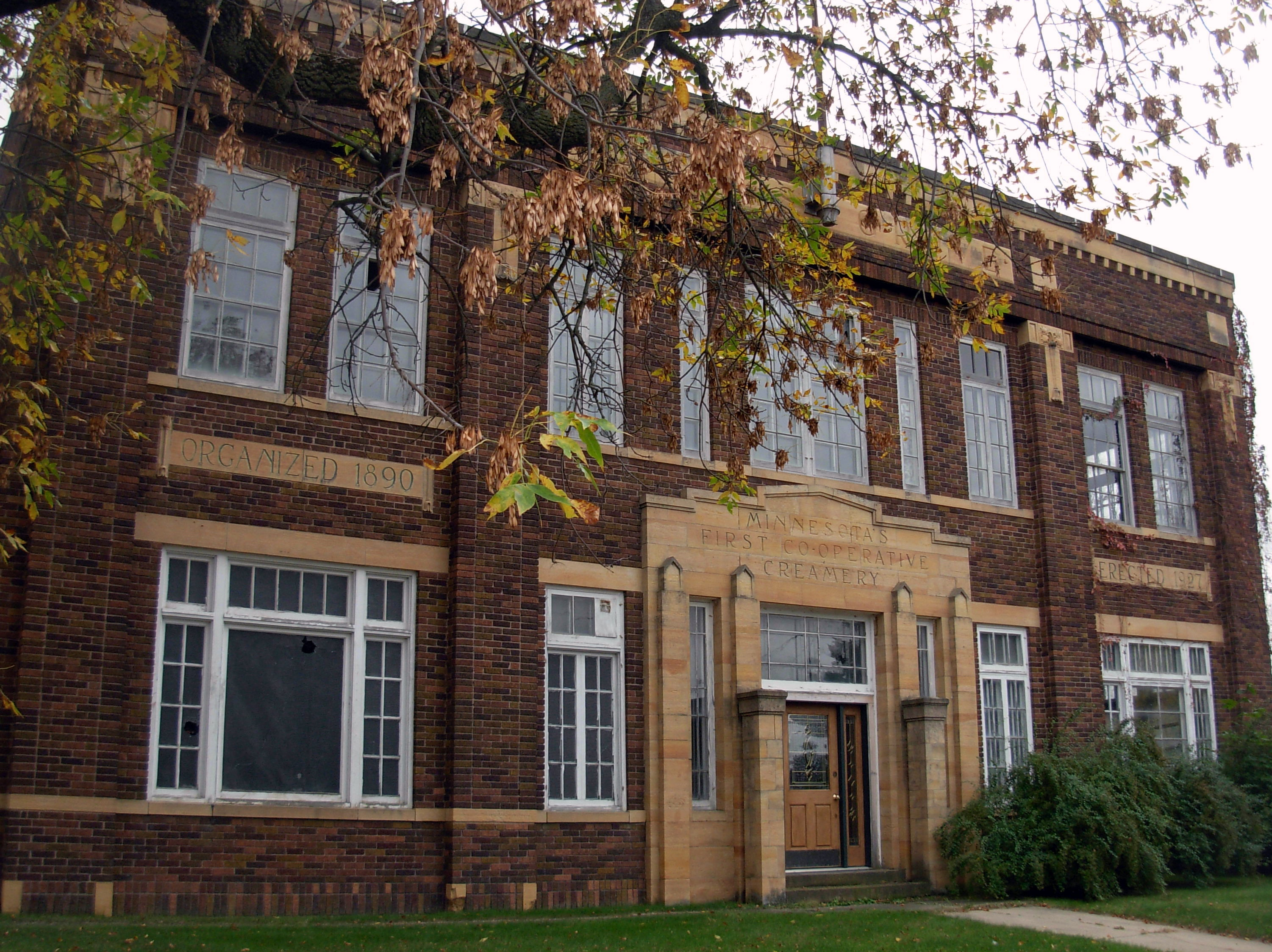 Co-operative Creamery Building seen from Main Street in Clarks Grove, Freeborn County, Minnesota.